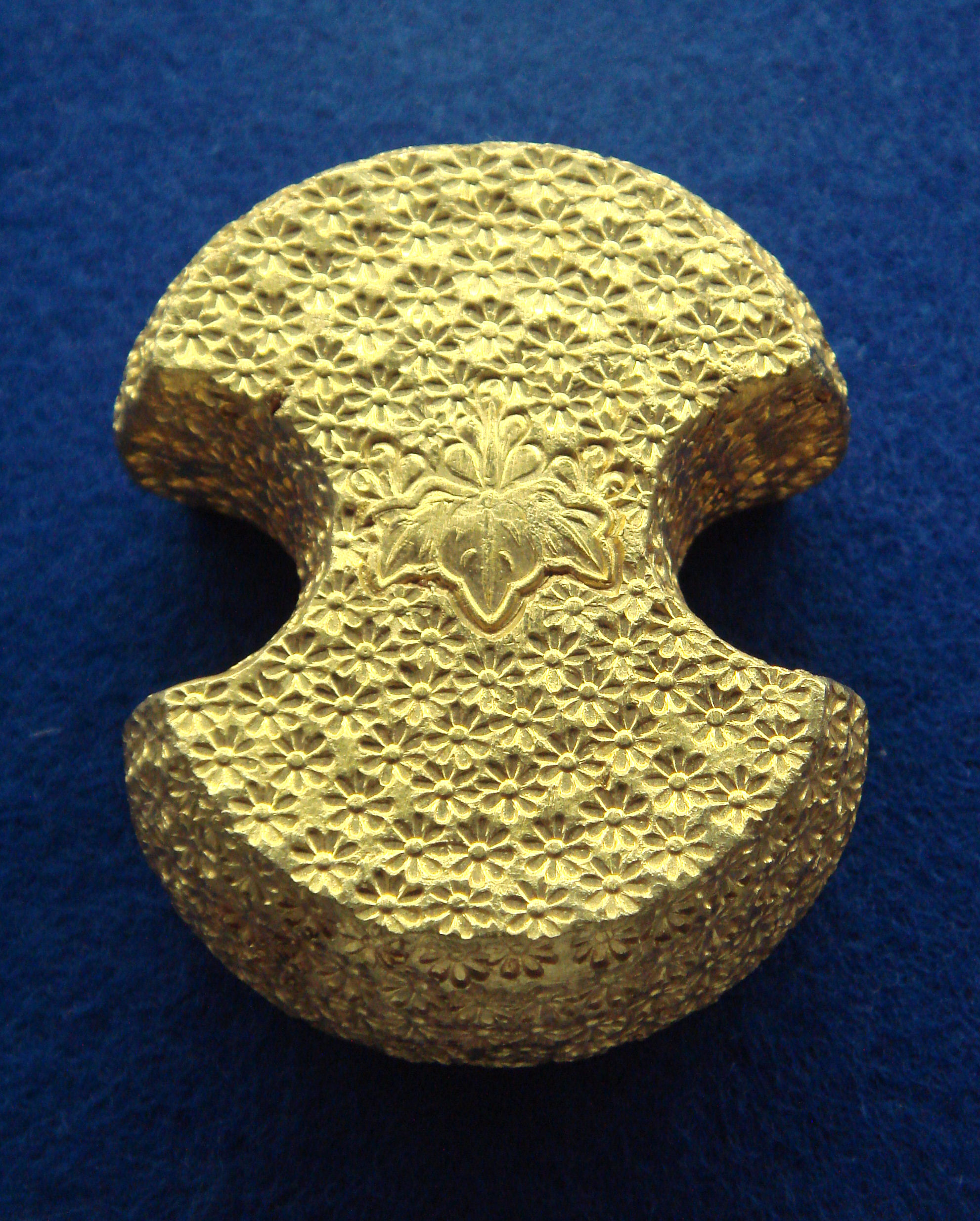 Kobundo_Japan